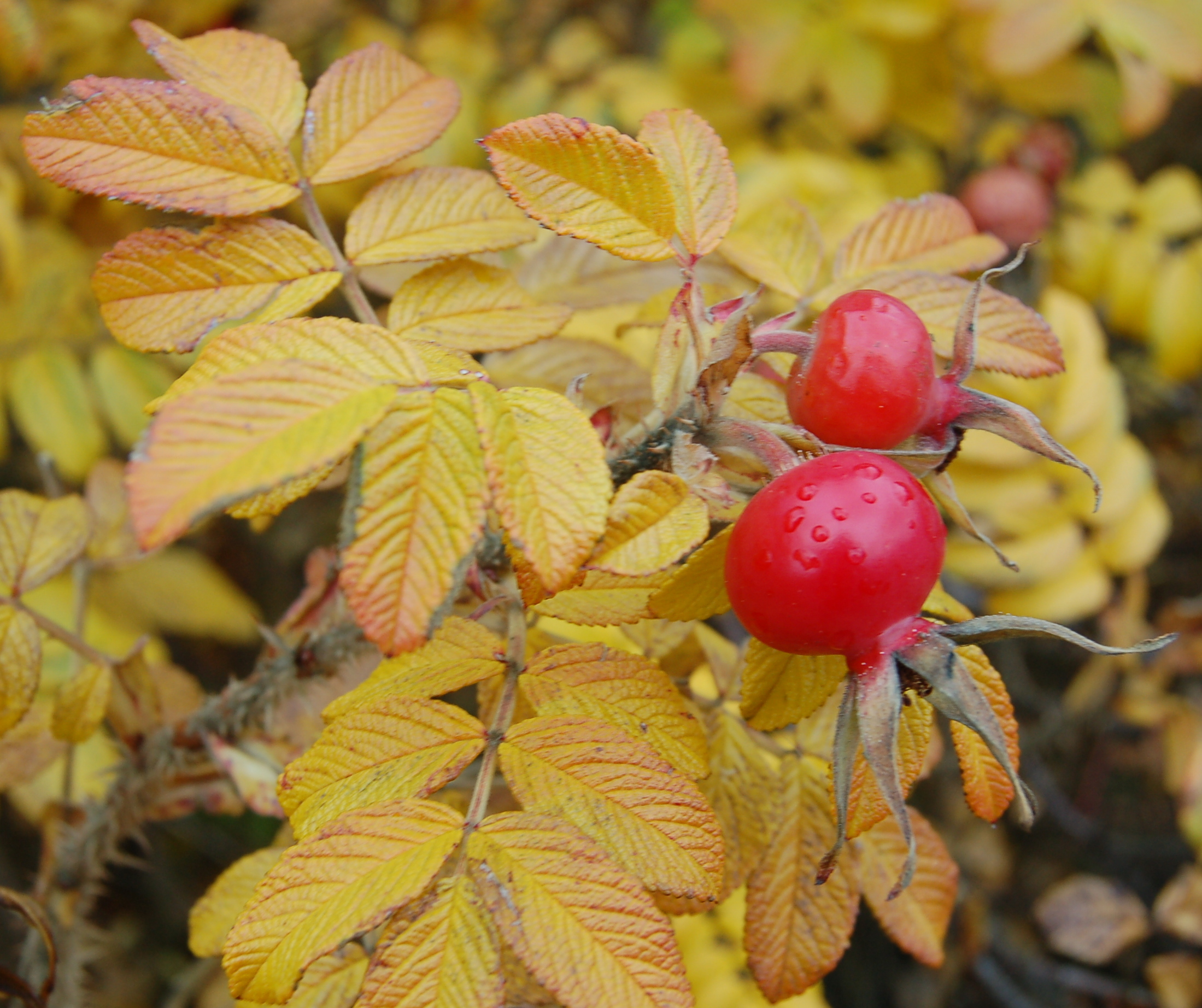 Rosa rugosa